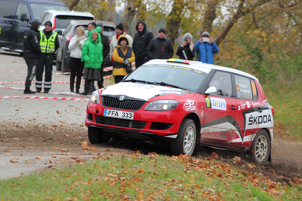 Rally driver Jonas Pipiras, Škoda Fabia R2